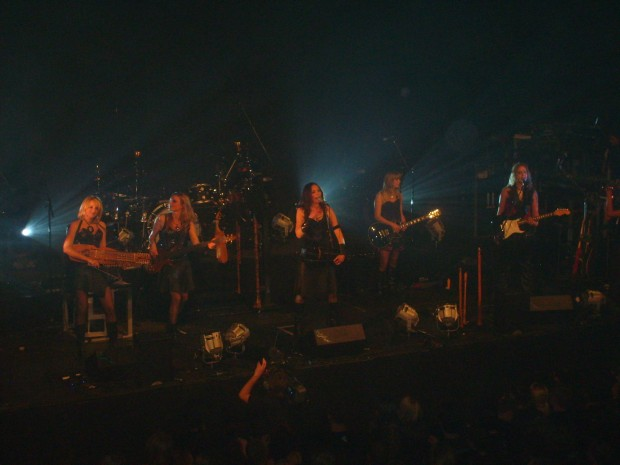 Reincarnatus during the Anderswelt-tour at the 3rd May of 2009 in Cologne